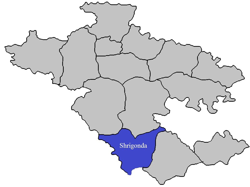 Shrigonda Tehsil in Ahmednagar District